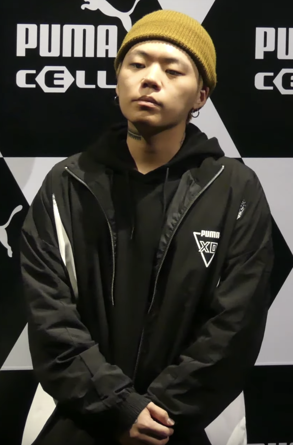 South Korean rapper Kid Milli on January 26, 2019